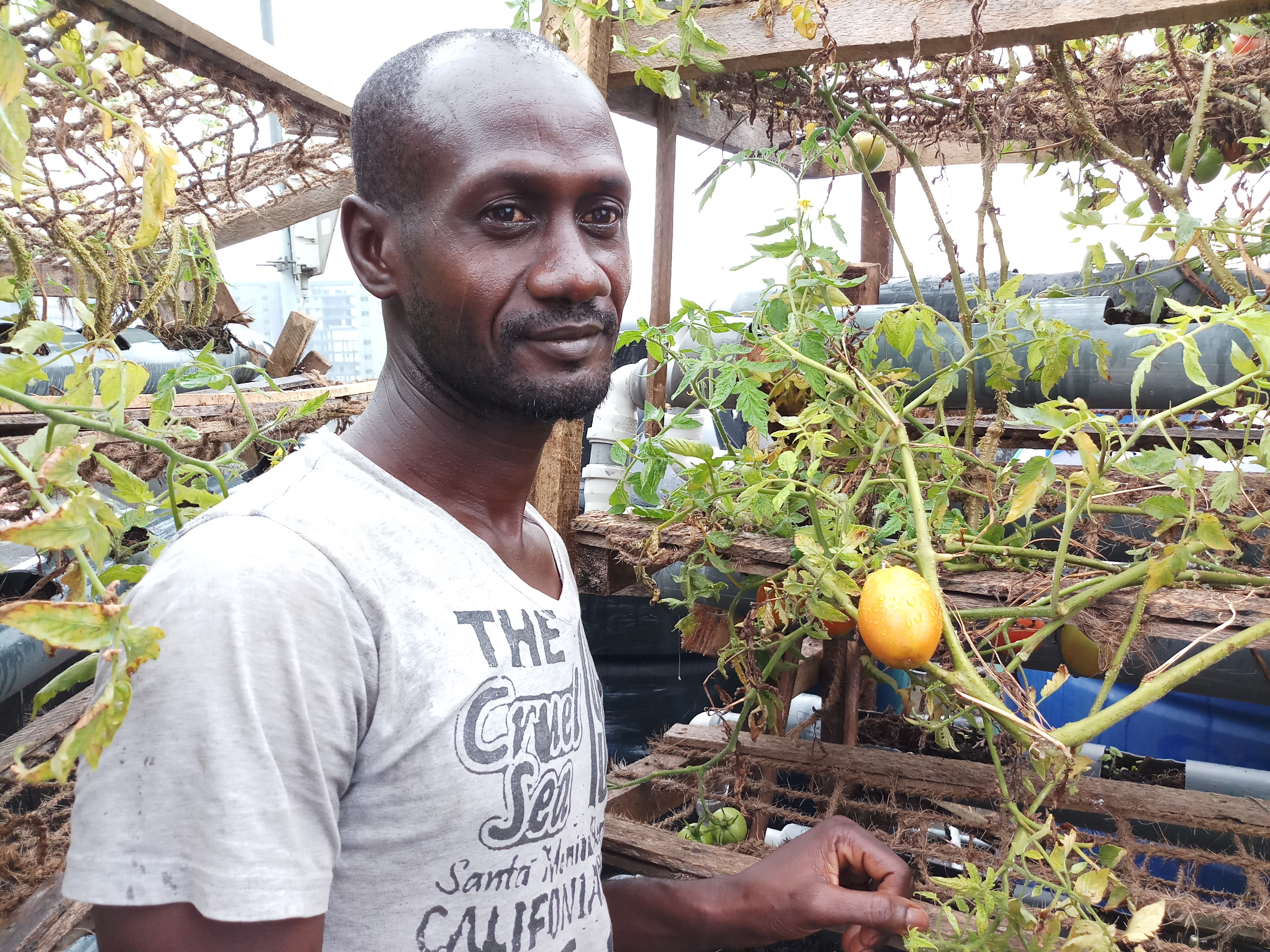 Rooftop is used effectovely to cultivate plants such as tomatto and celery. This is an image of "African people at work" from Nigeria